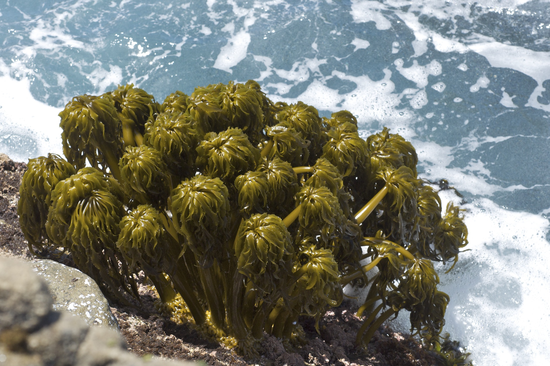 Species from the west coast of North America from Central California to British Columbia Common name: Sea Palm Photographed at Salt Point State Park, Sonoma County, California